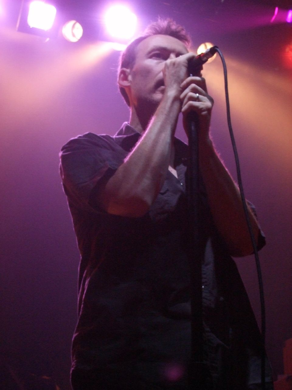 Jim Reid (of Jesus and Mary Chain) on stage 22 May 2007.